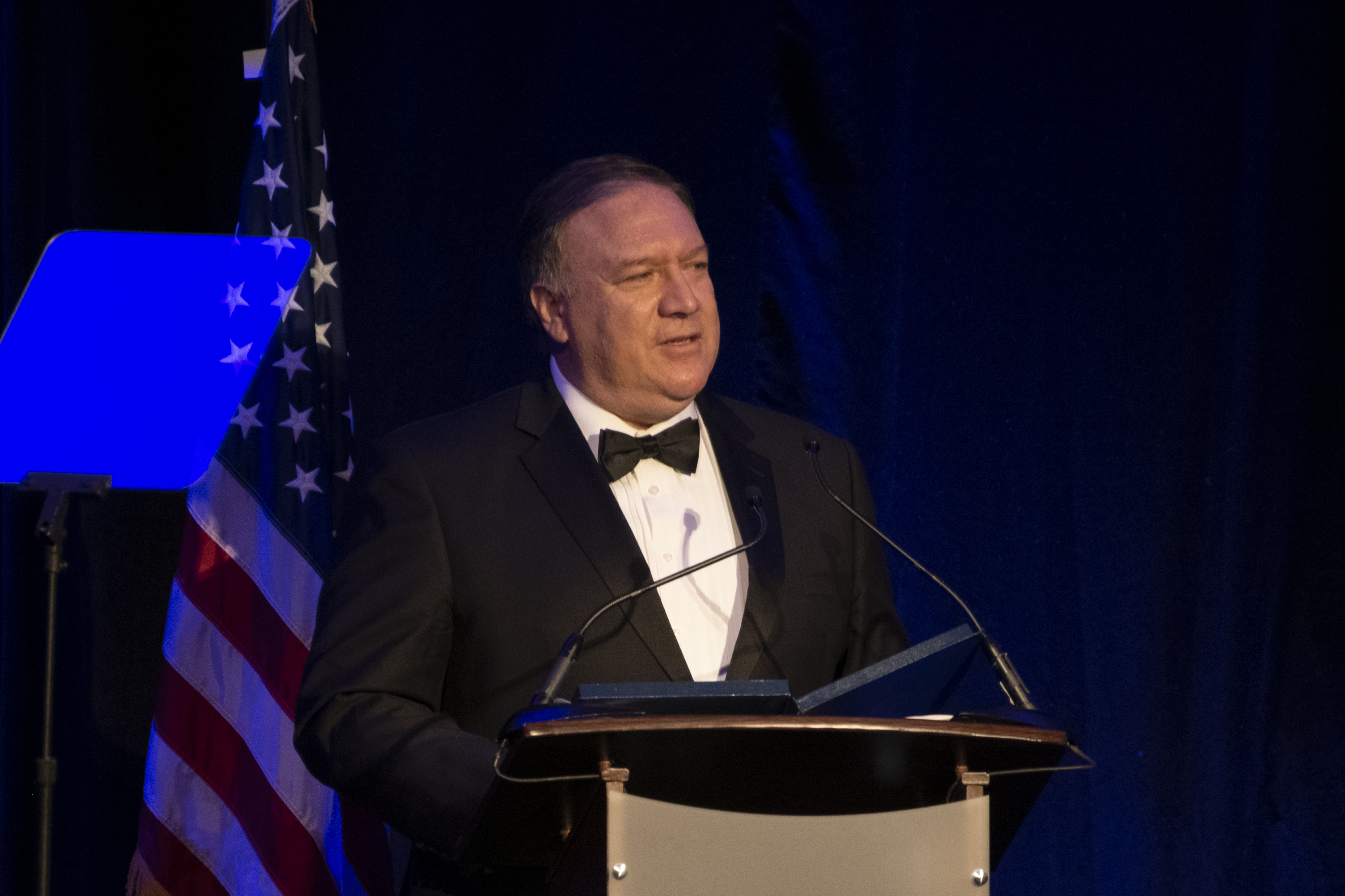 Secretary of State Michael R. Pompeo delivers remarks at the Business Executives for National Security (BENS) Gala and Award Ceremony, in Washington D.C, April 30, 2019. [State Department photo by Ron Przysucha/ Public Domain]